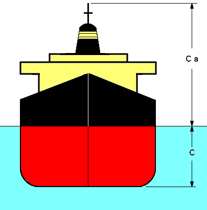 Ship aereal draft scheme